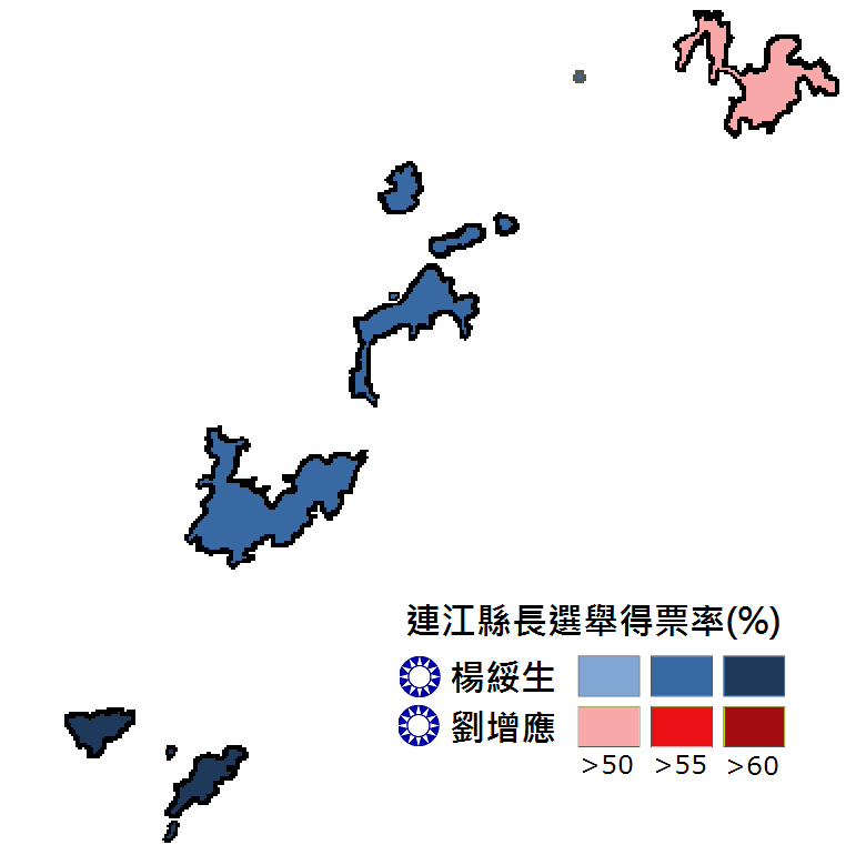 Lienchiang magistrate election 2009